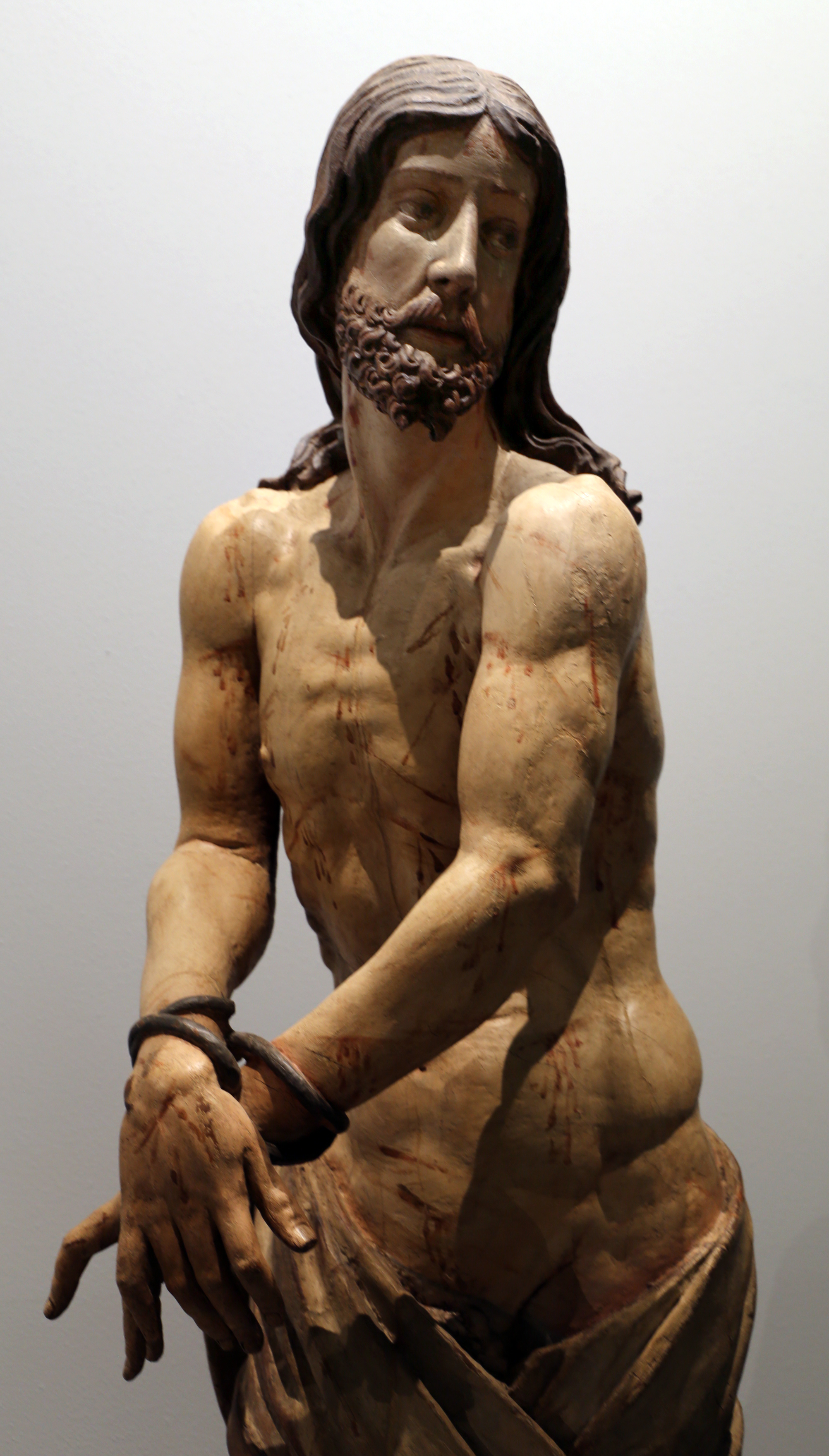 Sculptures in the Museo nazionale d'Abruzzo